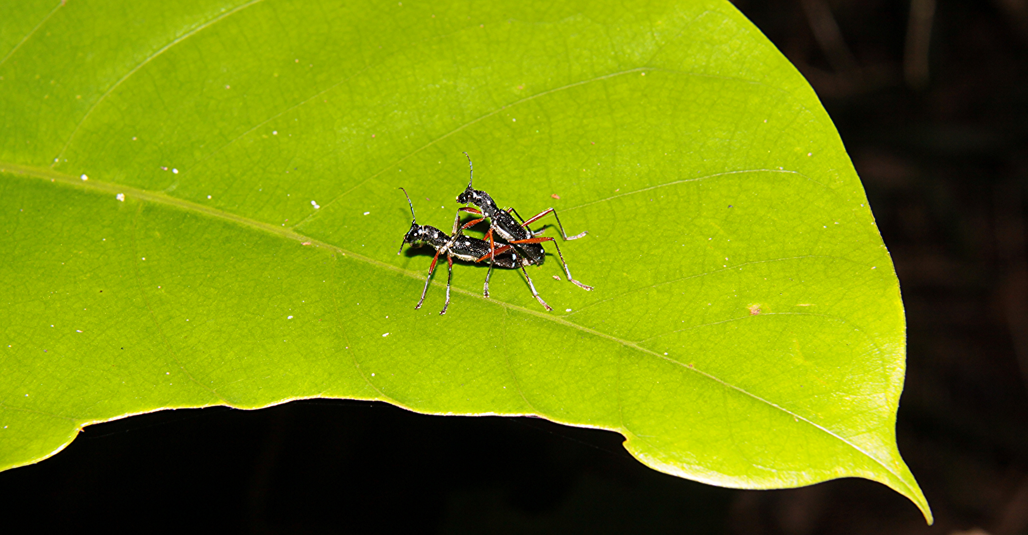 Sclethrus sumatrensis Han & Niisato, 2009 det. F. Vitali Indonesia, Sumatra, Aceh: Mt. Leuser NP (E-slope of Mt. Kemiri), ca. 1000m asl., 14.04.2009 IMG_4507